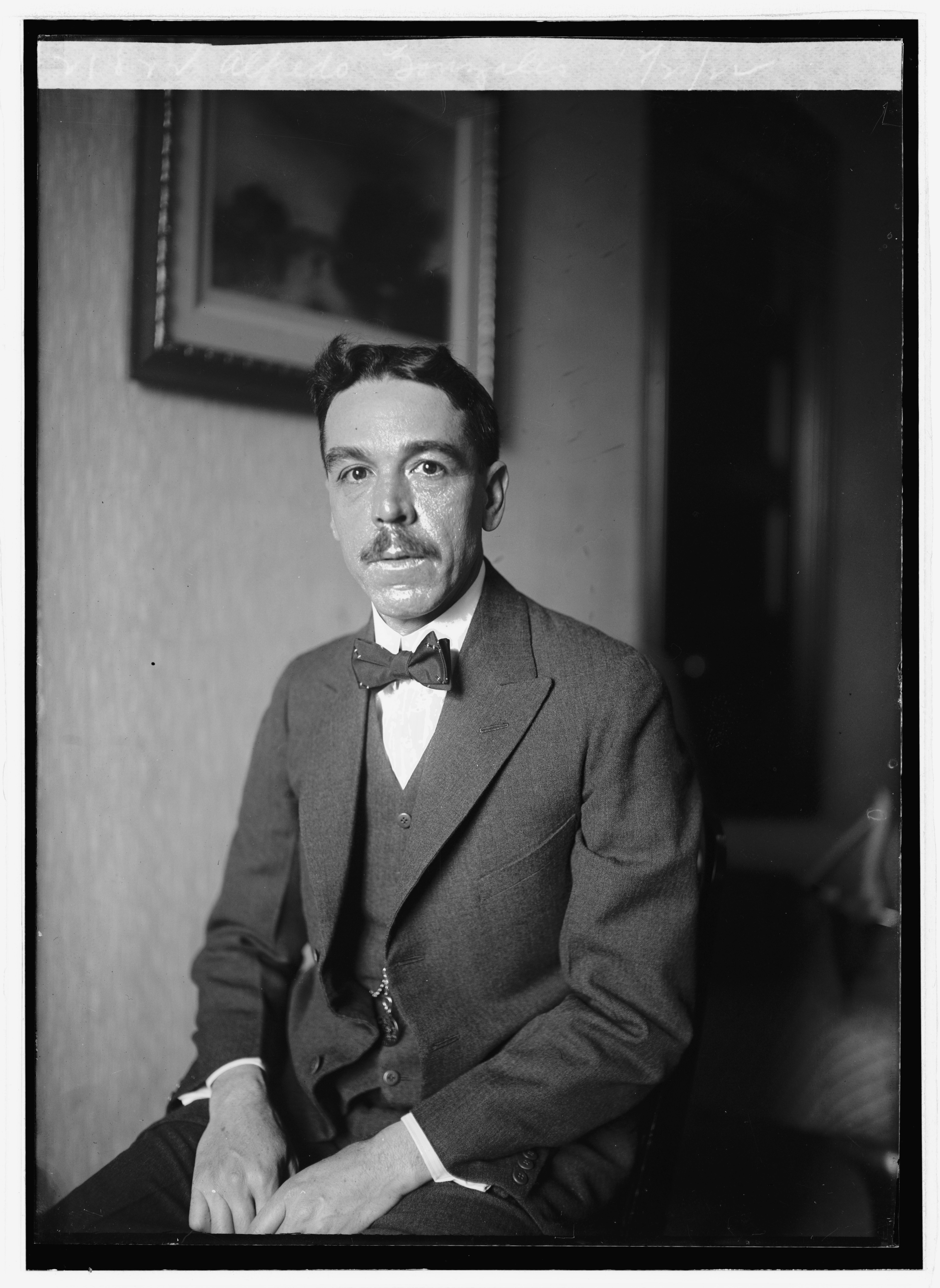 Title: Alfredo Gonzales, 12/21/22 Abstract/medium: 1 negative : glass ; 5 x 7 in. or smaller